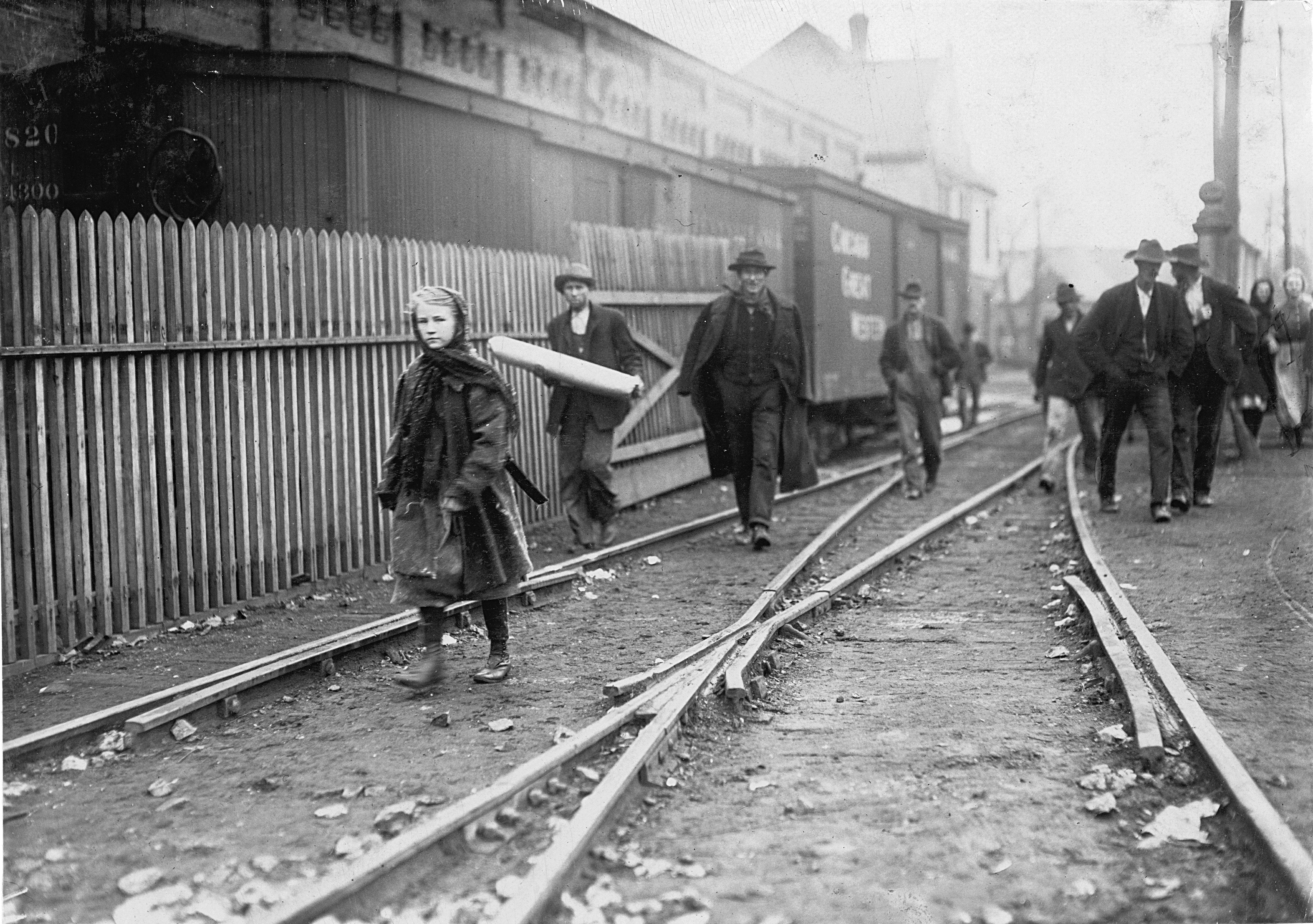 Workers at the Brookside Cotton Mill in Knoxville, Tennessee, USA, photographed by Lewis Wickes Hine in December 1910. This mill was located in the Second Creek valley, north of Mechanicsville. Original title on photo is "Young girl working Brookside Cotton Mills. Not the smallest."